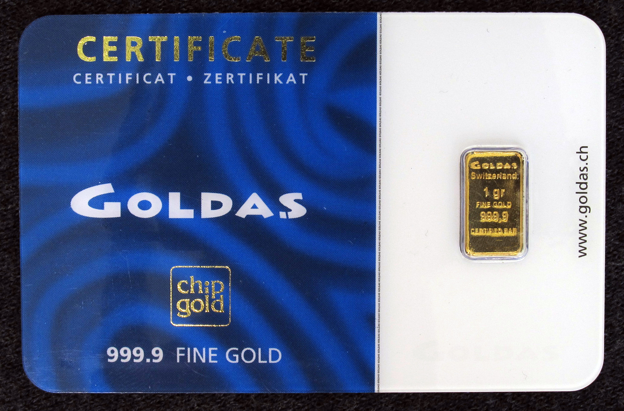 gold bullion bar with assay card